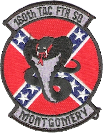 160th Tactical Fighter Squadron - Emblem F-4D era